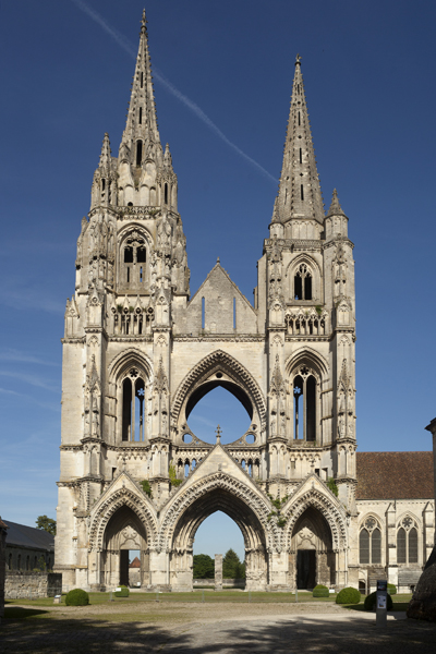 Soissons; Abbaye de Saint-Jean-des-Vignes; Nord-Pas-de-Calais-Picardie, Aisne; France; ref: PM_103351_F_Soissons; L'église; Cultural heritage; Europe/France/Soissons; Wiki Commons; photo: Paul M.R.Maeyaert; © Paul M.R. Maeyaert